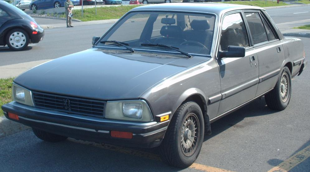 Peugeot 505 photographed in Montreal, Quebec, Canada.